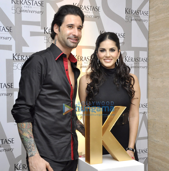 Sunny Leone